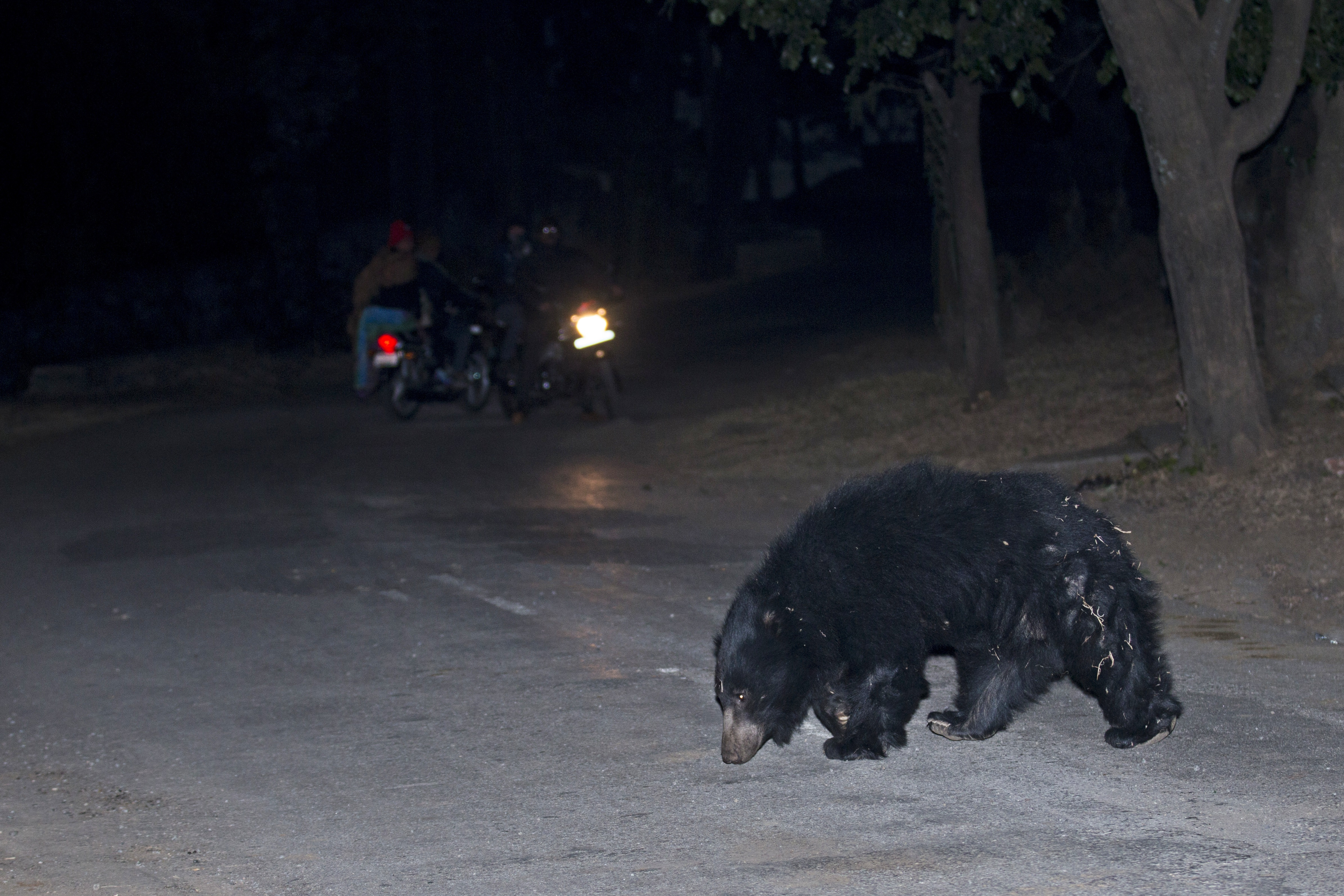 Being nocturnal, sloth bear many times ventures in outskirts of human presence, availability of easy food and water could be the main reason. While crossing road few times tribal watch them, but they maintain ample distance so that animal is not disturbed and give them time for crossing and safely going back into forest.